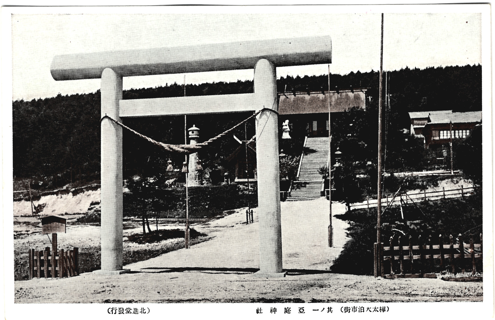 Japanese postcard of Shinto shrine "Aniwa-jinja" in Oodomari in Karafuto (now Korsakov, Sakhalin region, Russia)